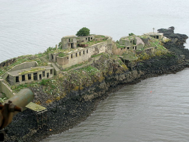 Inch Garvie, taken from the Forth Rail Bridge. Inch Garvie was an important strategic point, defended by the Royalists against Cromwell. It had as many guns mounted on it, and men set to work them, as its castle could hold but was forced to surrender to Cromwell in 1651, probably because of a lack of fresh water. The remains of this fort are in poor condition and consist of a low, roughly built wall, modern brickwork having been introduced when the island was fortified during the last two wars. Photograph taken by Neil Armstrong.